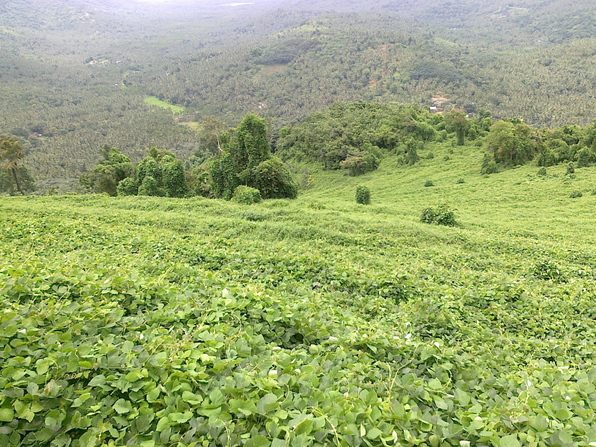 View of Arimbra mala of Morayur village through old rubber plantation of Late Chakeeri Kunhami Umma